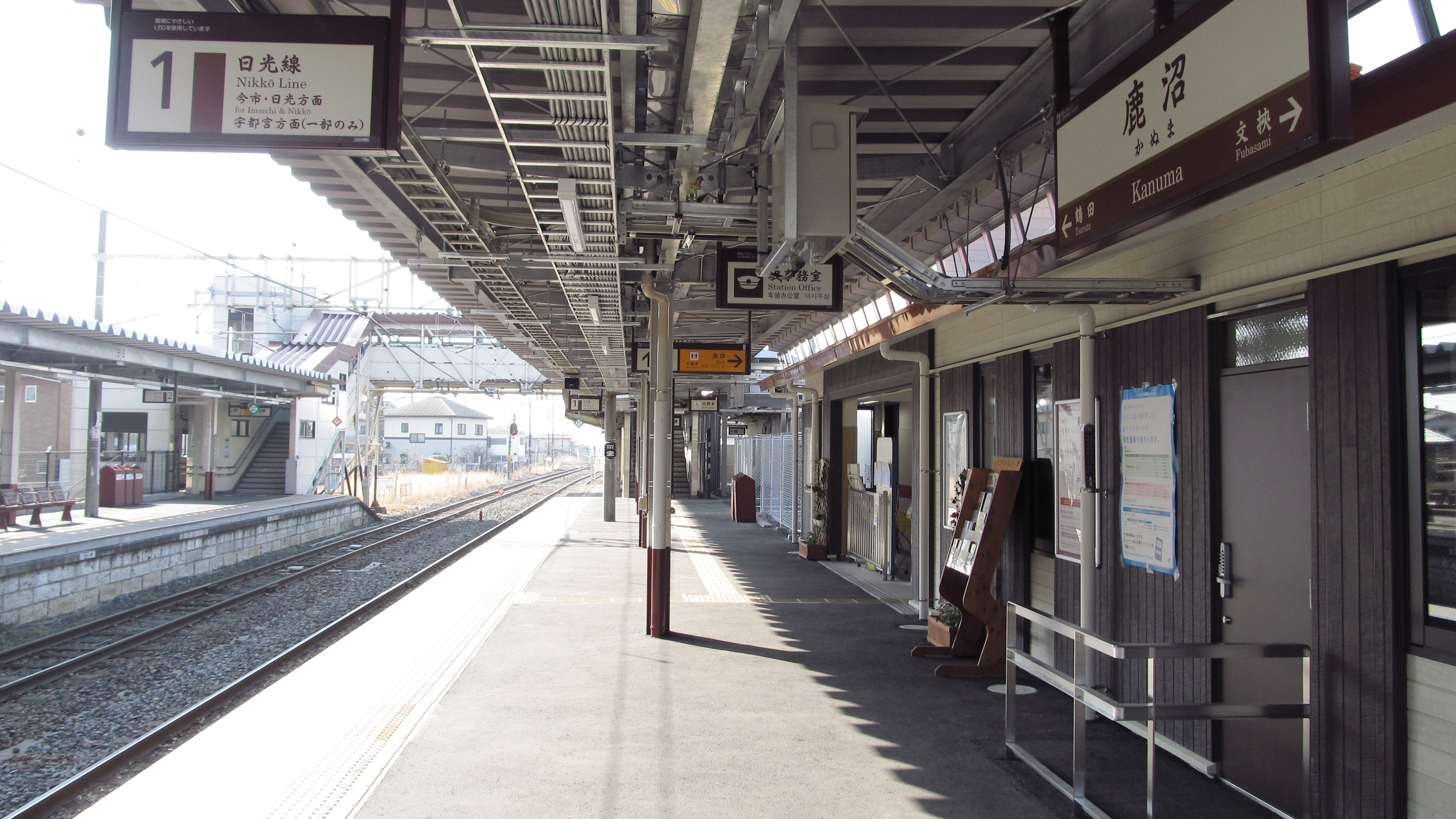 The platforms at Kanuma Station on the Nikkō Line in Kanuma city, Tochigi prefecture, Japan